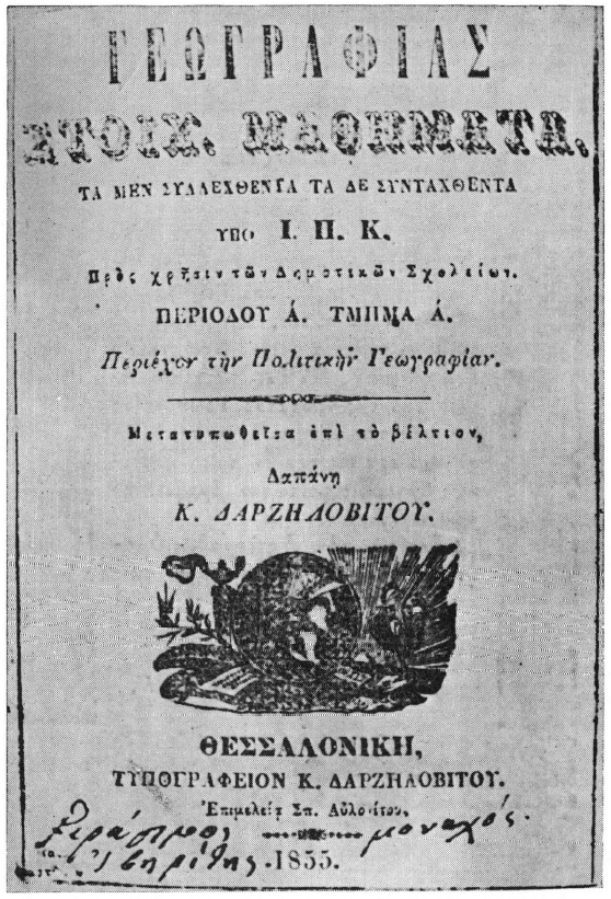 Φωτοτυπία τον εξωφύλλου των Γεωγραφίας Στοιχ(ειωόών) Μαθημάτων στην πρώτη έκδοση τον Κ. Δαρζηλοβίτη 1855